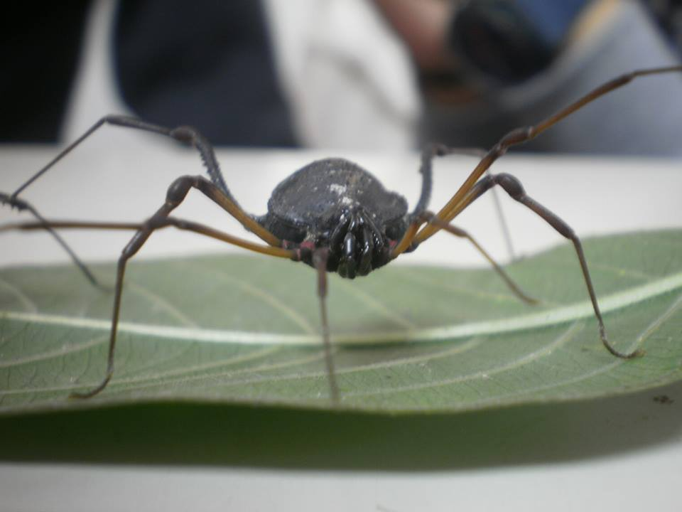 Harvestsman's fenale over leaf